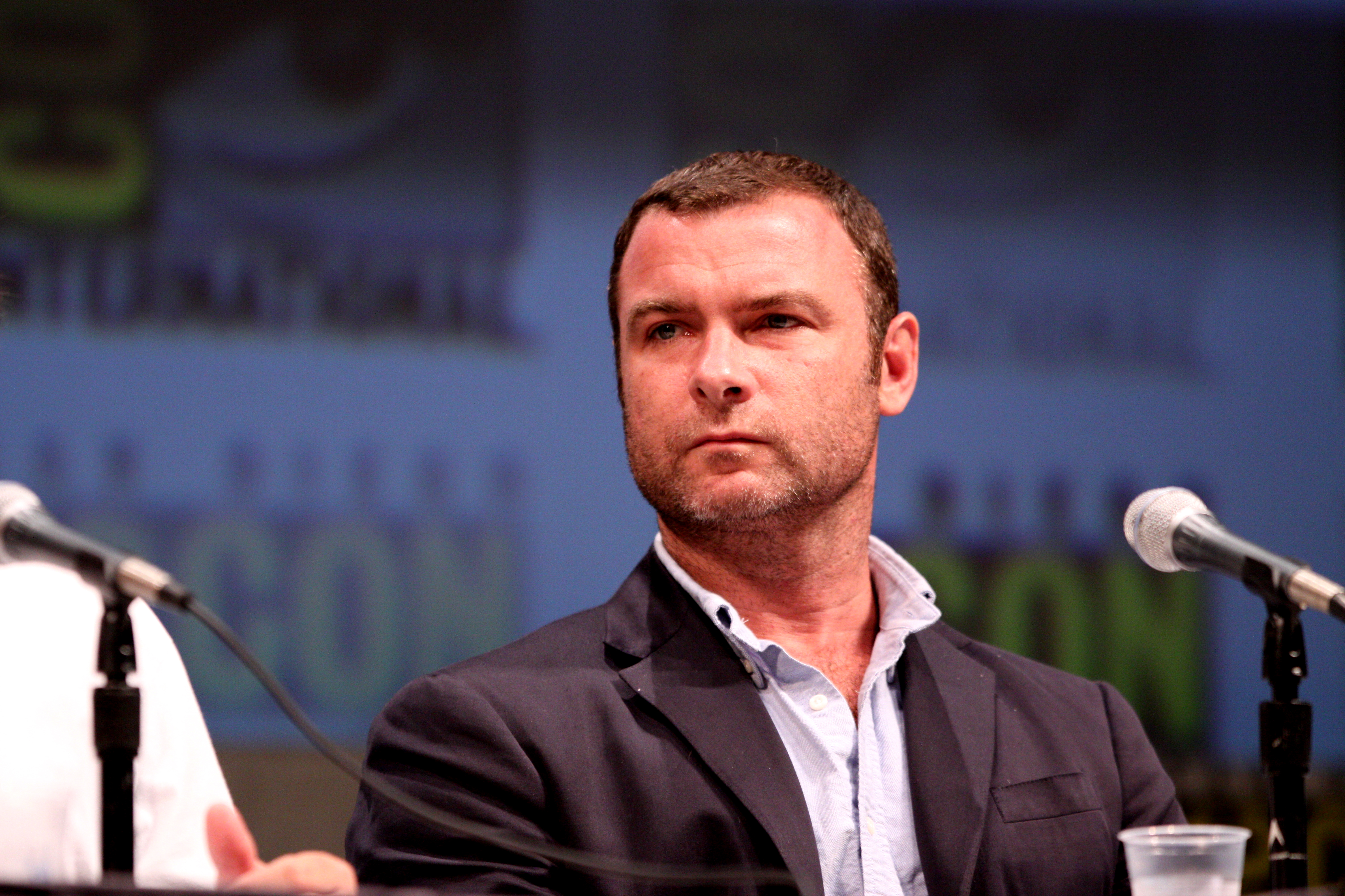 Liev Schreiber at 2010 Comic-Con International